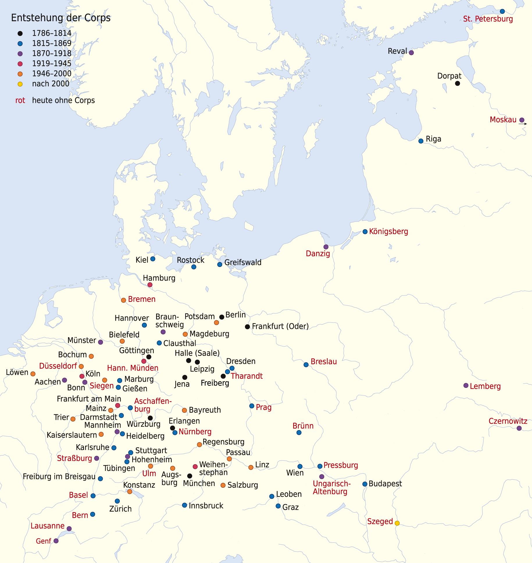 Map of the foundations of German Student Corps